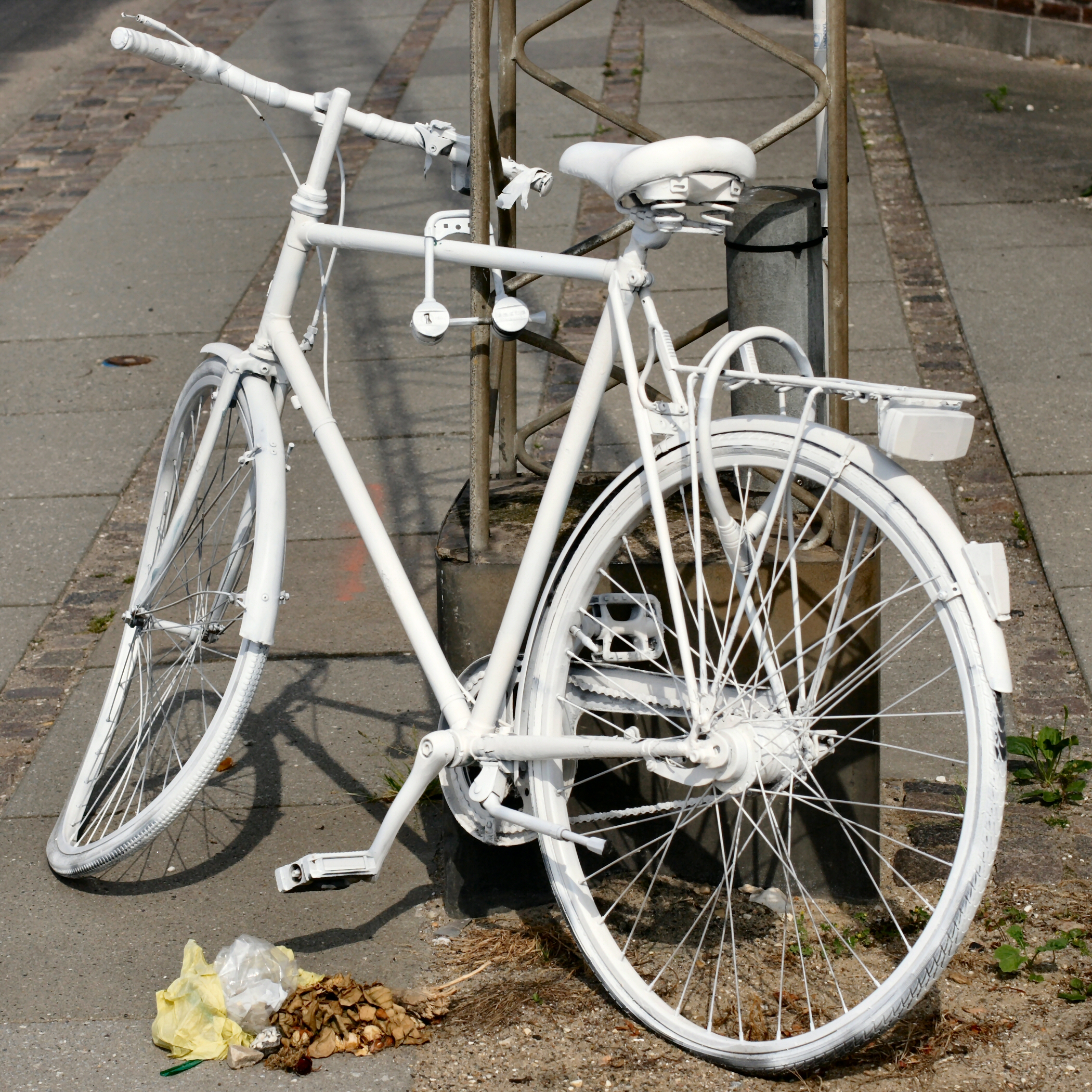 Ghost Bike in Århus, Denmark